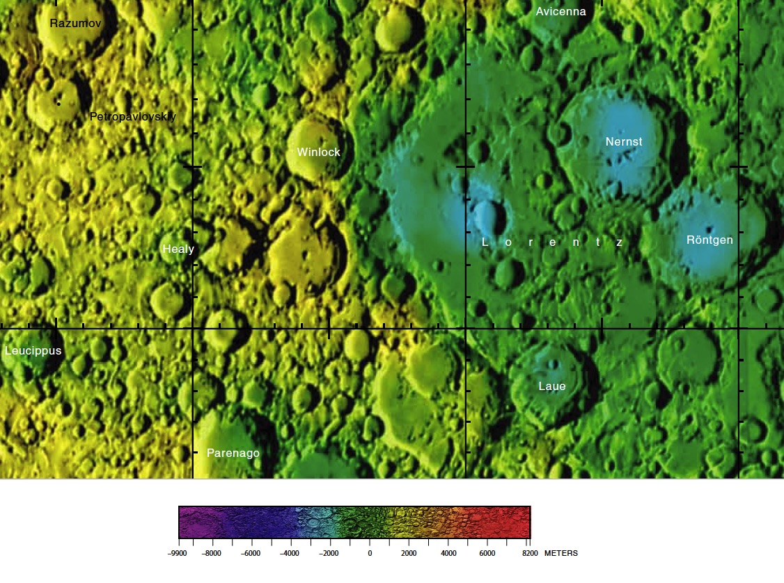 Part of the USGS far side lunar chart